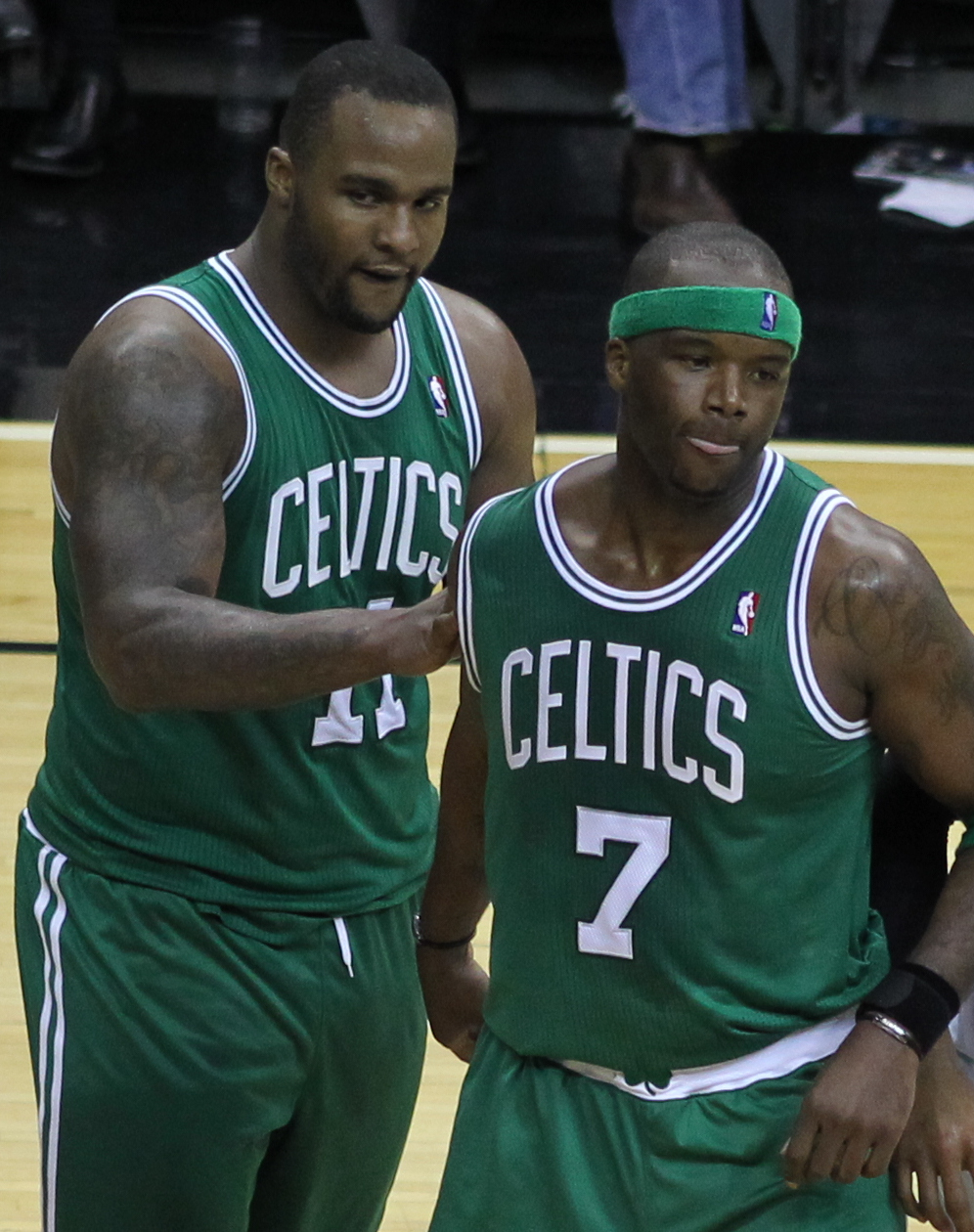 Boston Celtics v/s Washington Wizards April 11, 2011